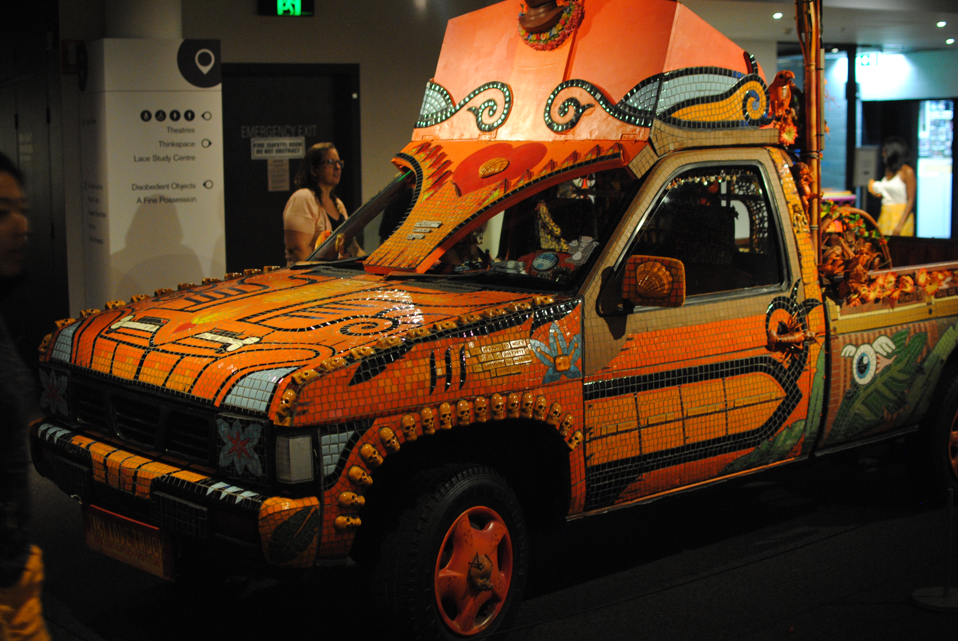 in the Powerhouse Museum, Sydney, NSW, Australia. [Camera's clock set to UTC]